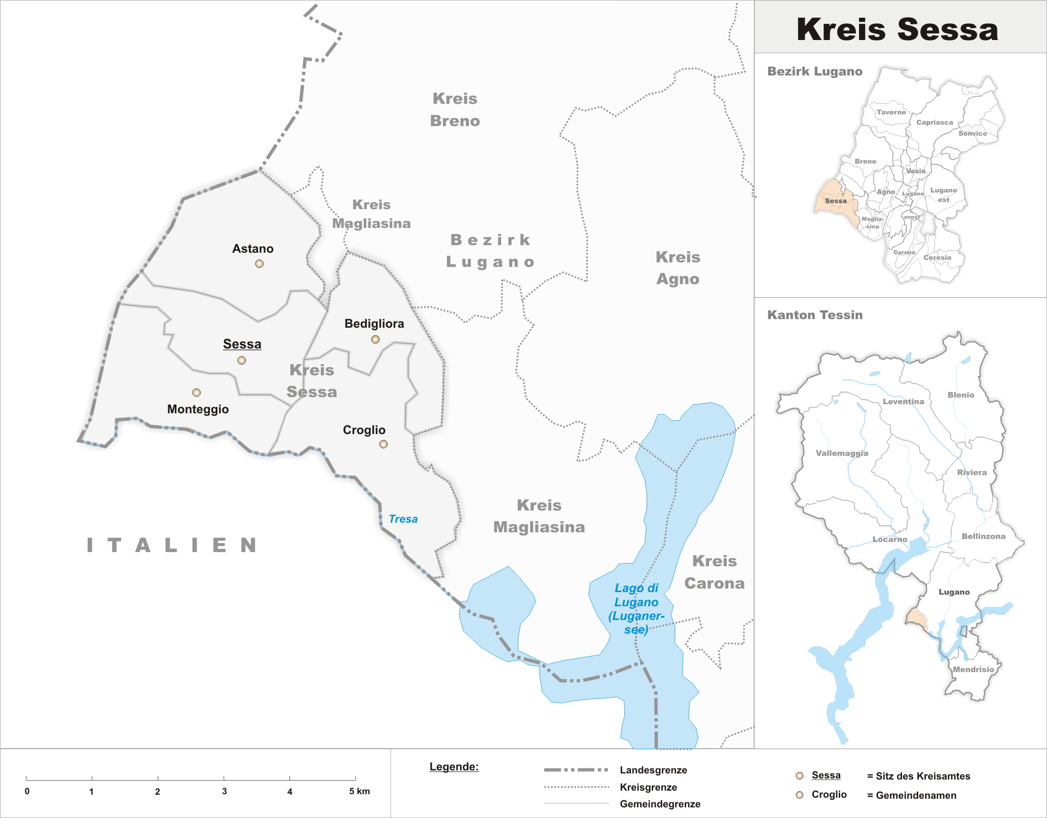 Municipalities in the circle of Sessa